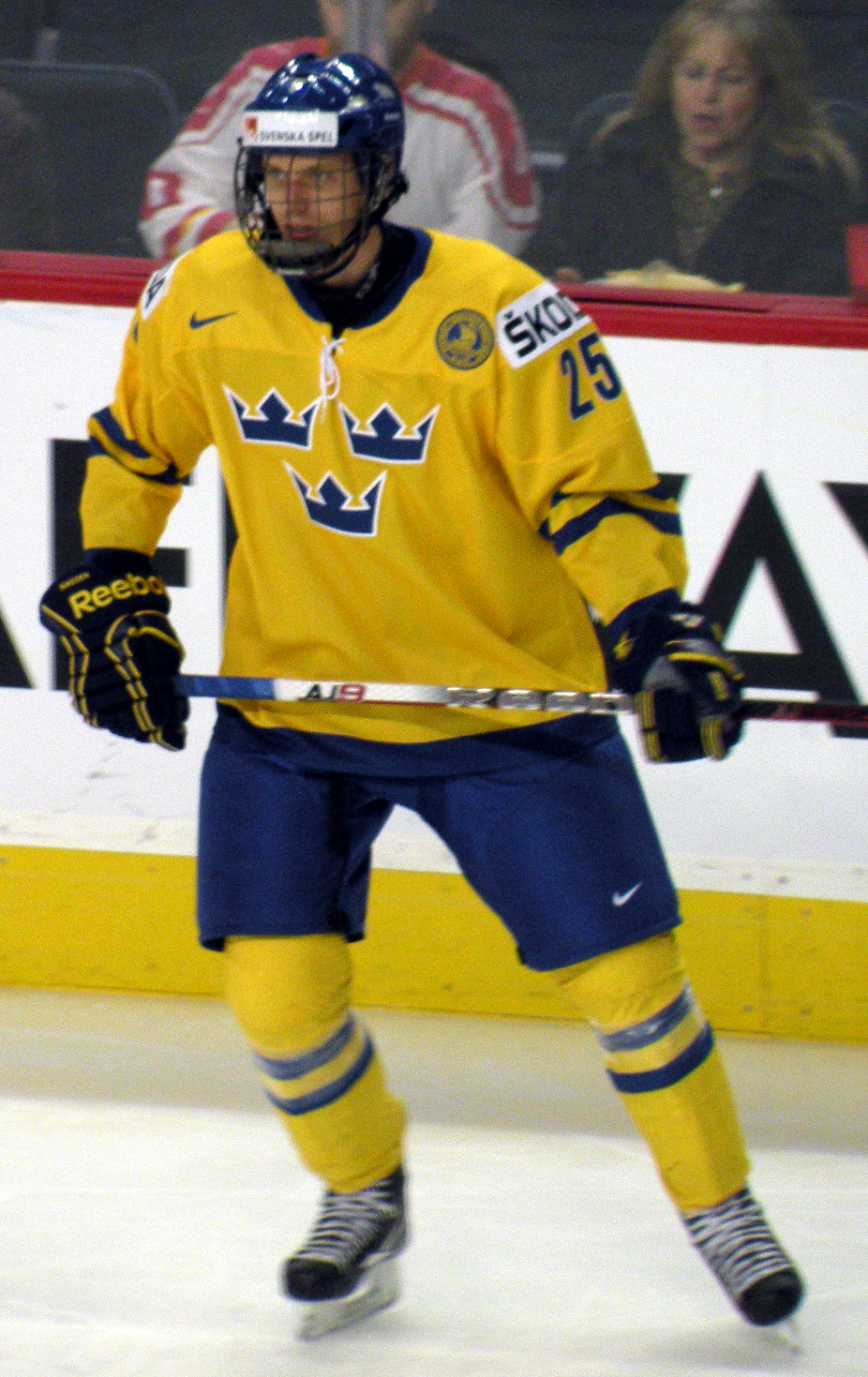 Swedish defenceman Jonas Brodin prior to the gold medal game of the 2012 World Junior Hockey Championships at Calgary, Alberta, Canada.